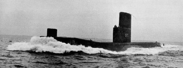 USS Seawolf (SSN-575) underway.